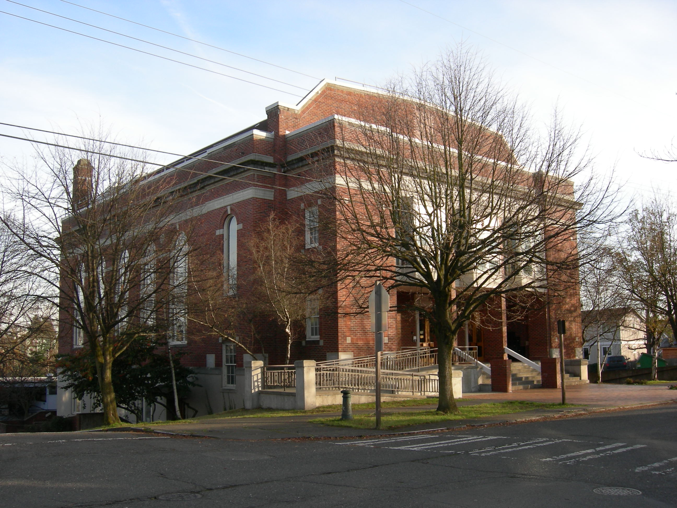 Odessa Brown Neighborhood Health Center, formerly Herzl Congregation Synagogue, 172 20th Avenue, Seattle, Washington, USA. Built 1924–1925, sold to the city in 1970 for use as a clinic. The associated congregation was Orthodox at the time the synagogue was built, but became Seattle's first Conservative congregation in 1929. The transition to a clinic occurred against the background of many Jews leaving central Seattle for Mercer Island, the neighborhood becoming increasingly African American, and the Civil Rights movement and Model Cities program. For more about the building, see Summary for 172 20th AVE / Parcel ID 9826701245, Seattle Department of Neighborhoods.